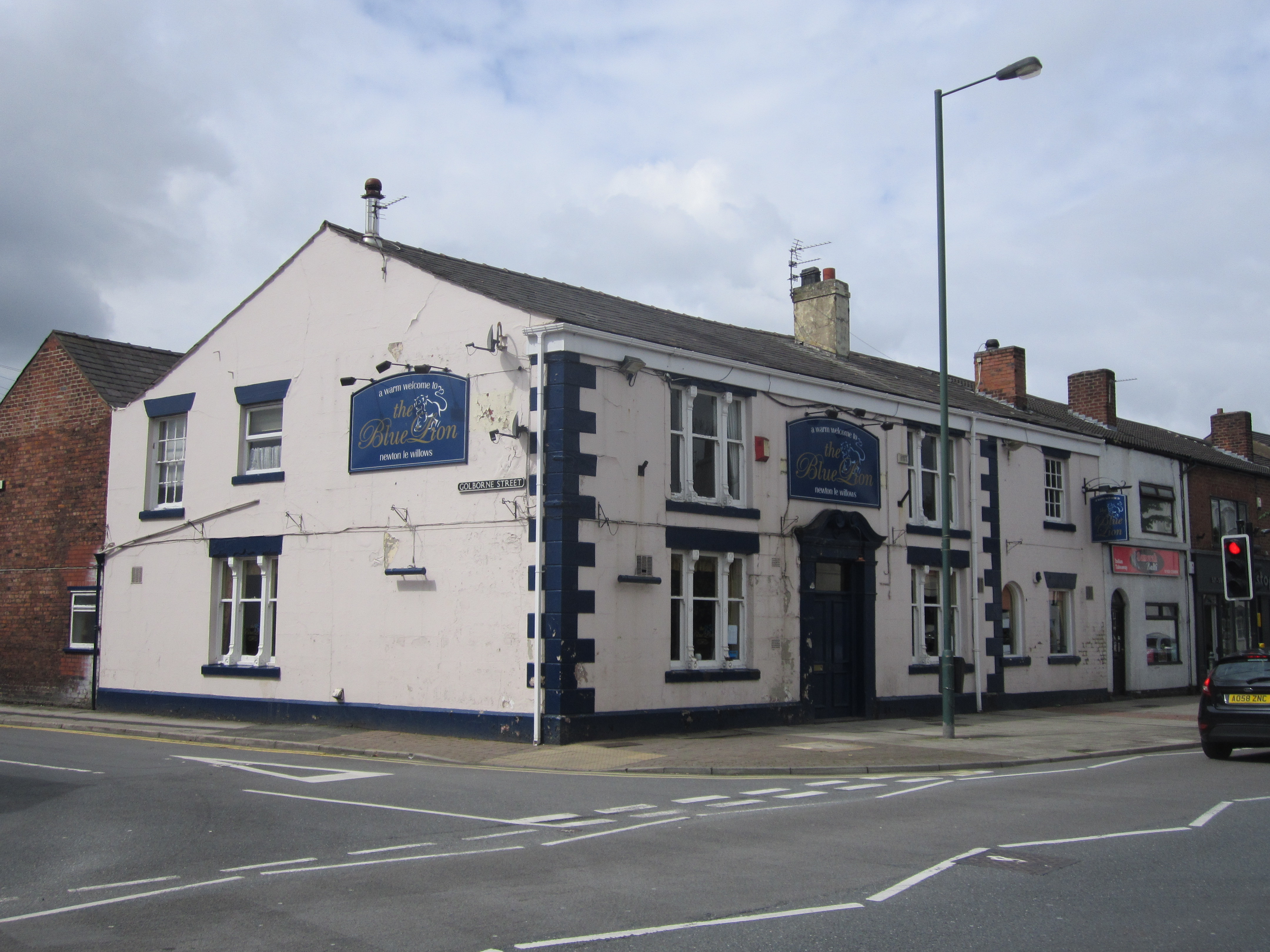 The Blue Lion pub, Newton-le-Willows, Merseyside, England.